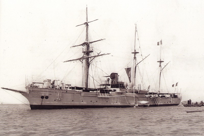 The French gunboat Zelee